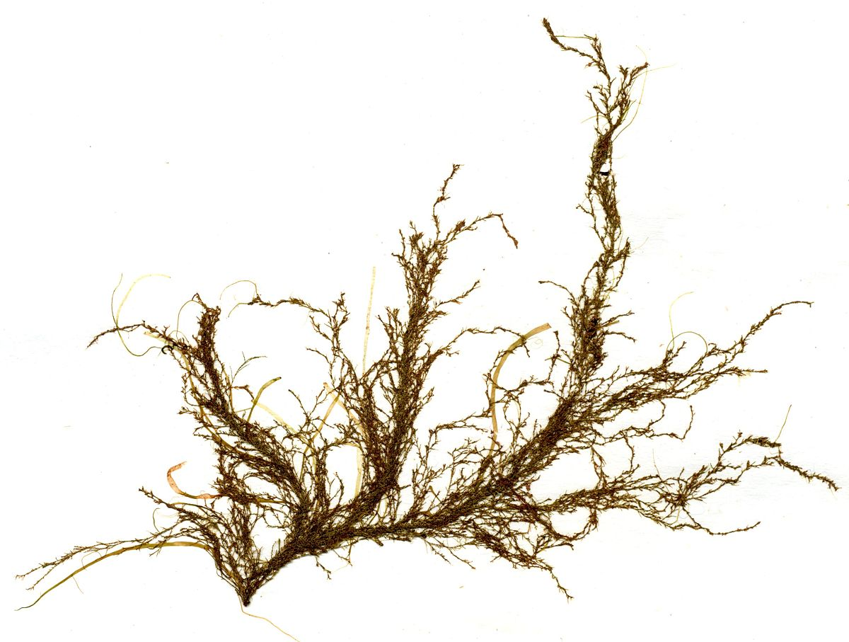 Cladophora sp. (Cladophora albida?), herbarium sheet. Collected 1989-08-08, Heligoland (Germany), lower eulitoral